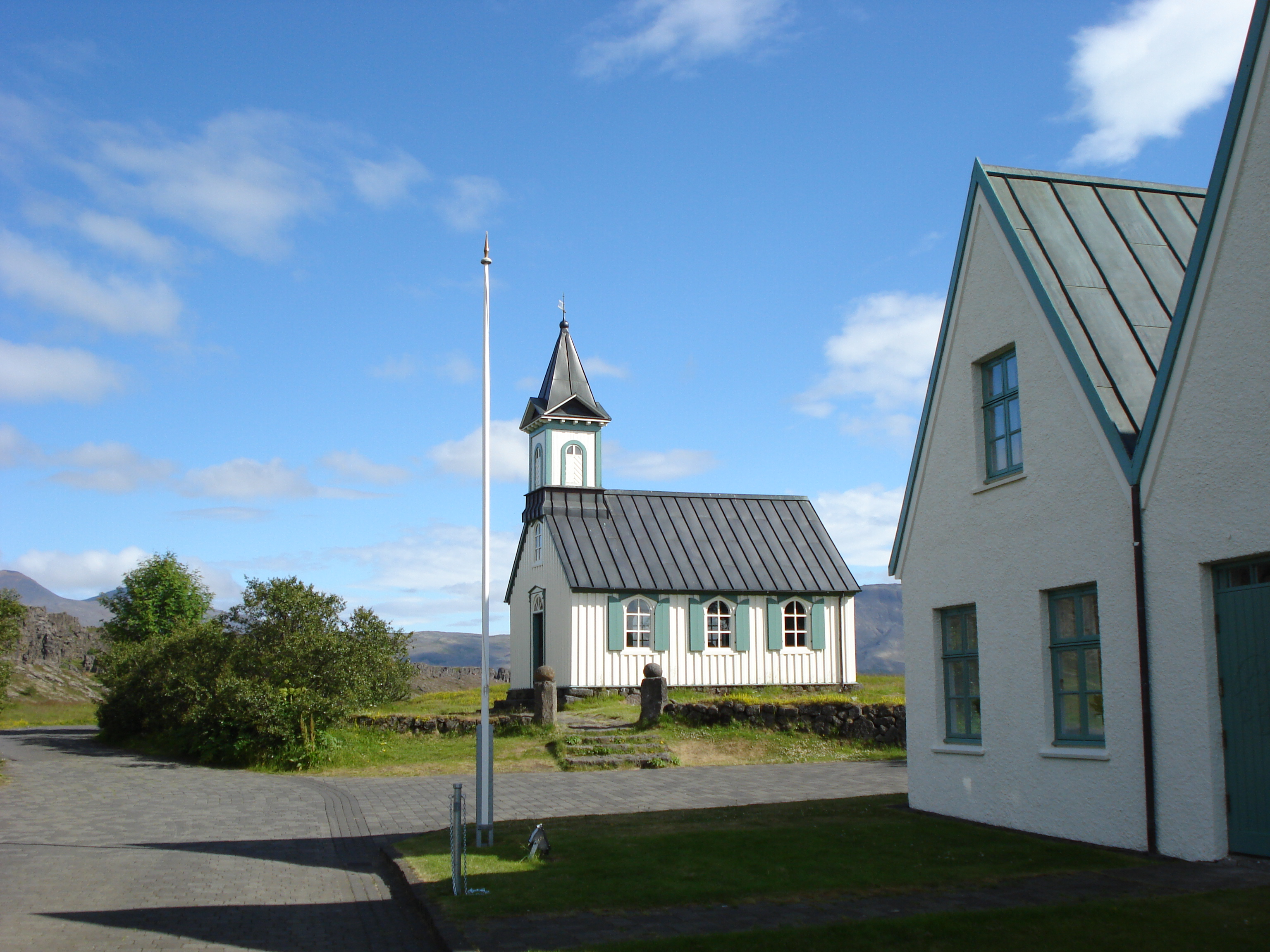 Church of Thingvellir, Iceland